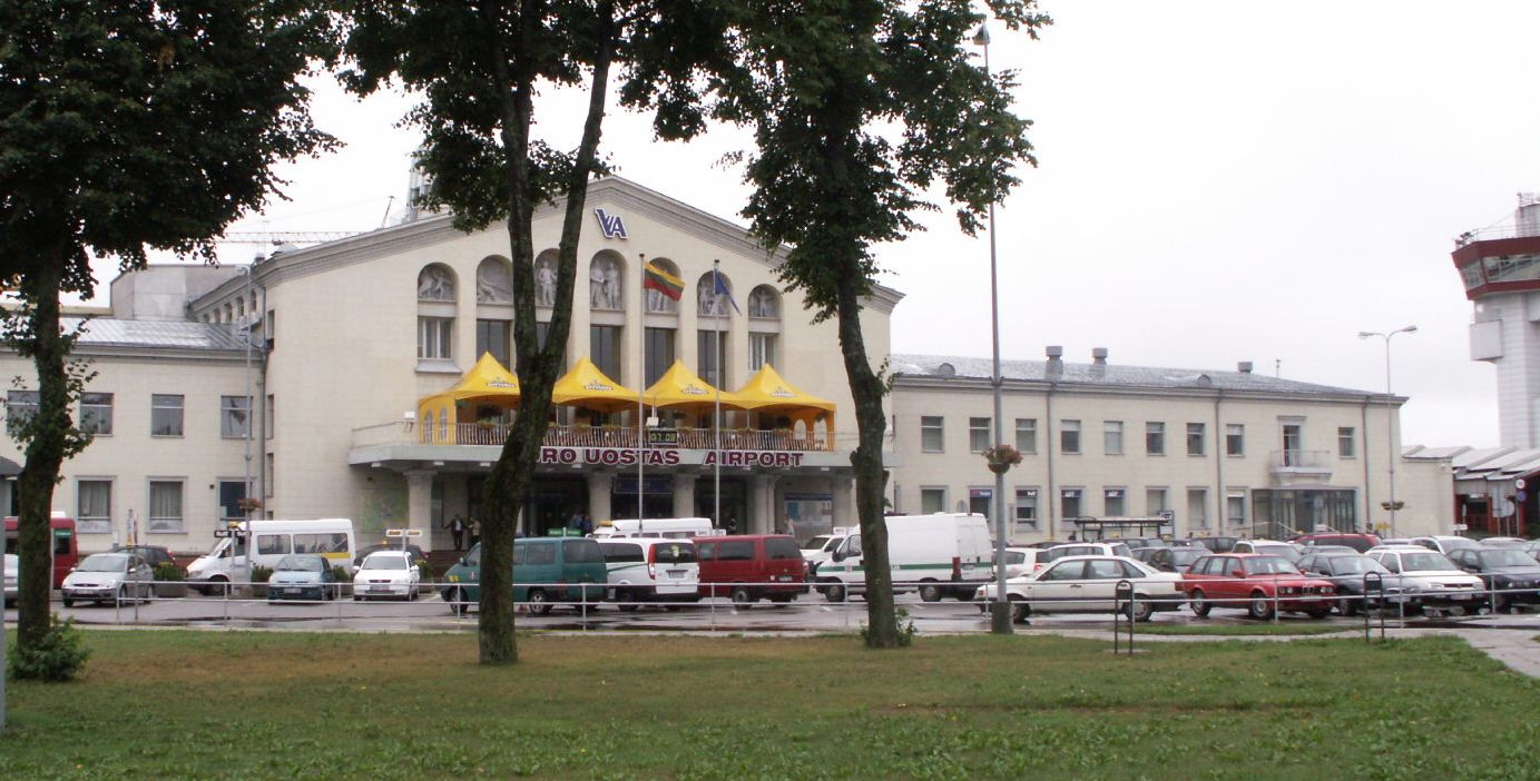 Vilnius airport building